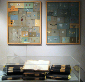 Suzanne Belperron - Exhibition of her personal archives - Sotheby's Paris - January 24th, 2012